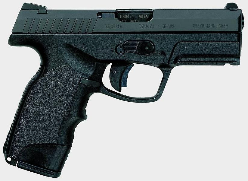 Steyr M-A1 semi-automatic pistol.